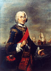 President of the Russian Admiralty Board Peter von Si(e)vers